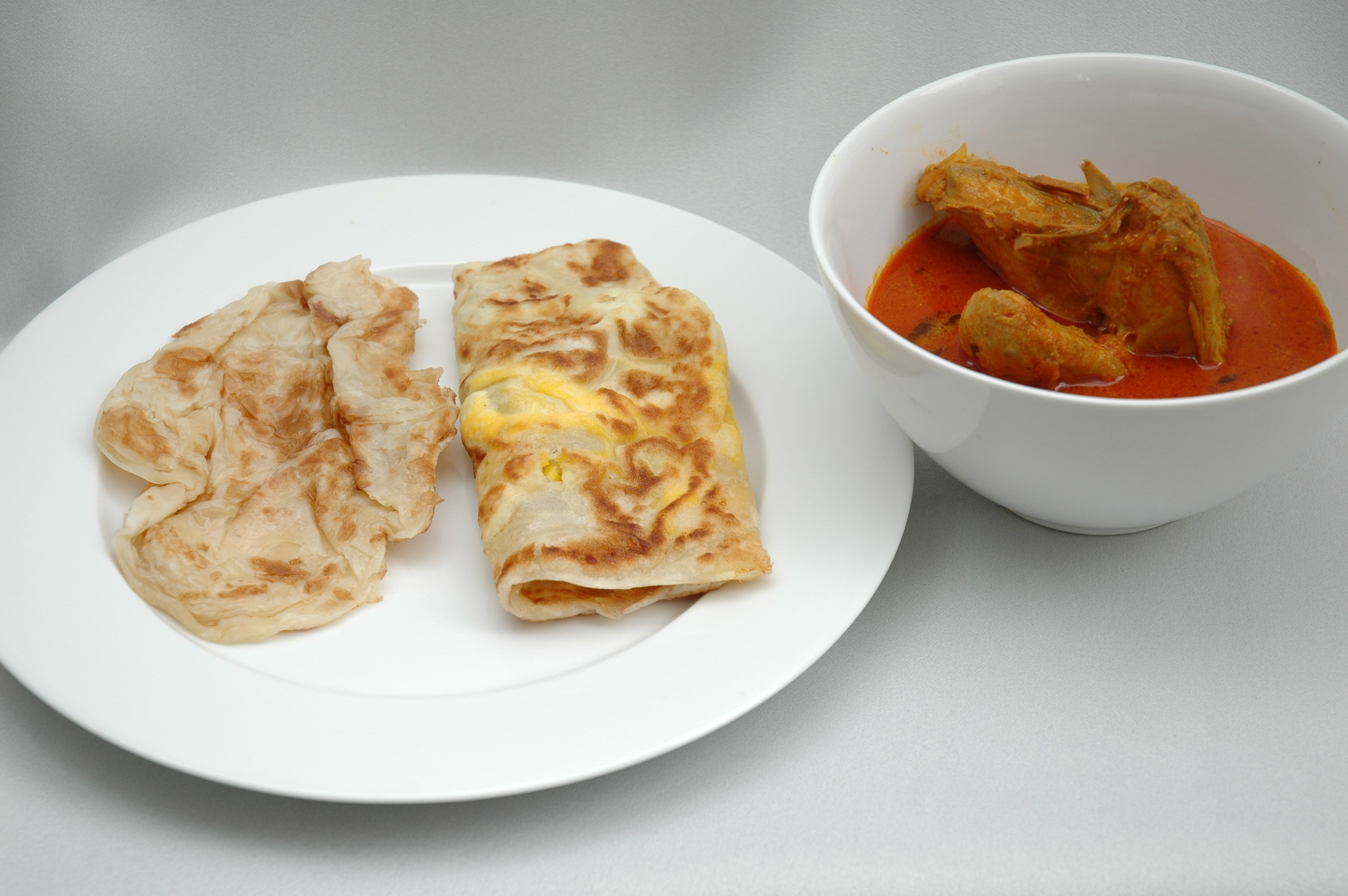 Roti prata (left) and egg prata (center), with a bowl of chicken curry (right) Taken by jpatokal at Contentshare Studios